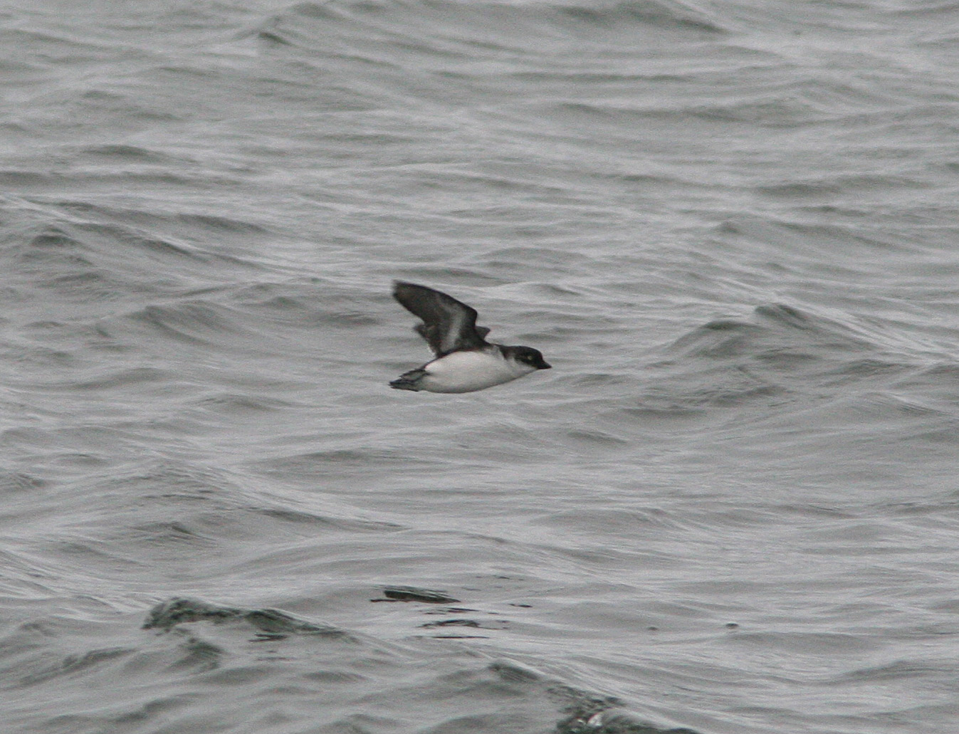 GAMBELL, AK - WINGS TOUR 8/29 - 9/8/2008 and after